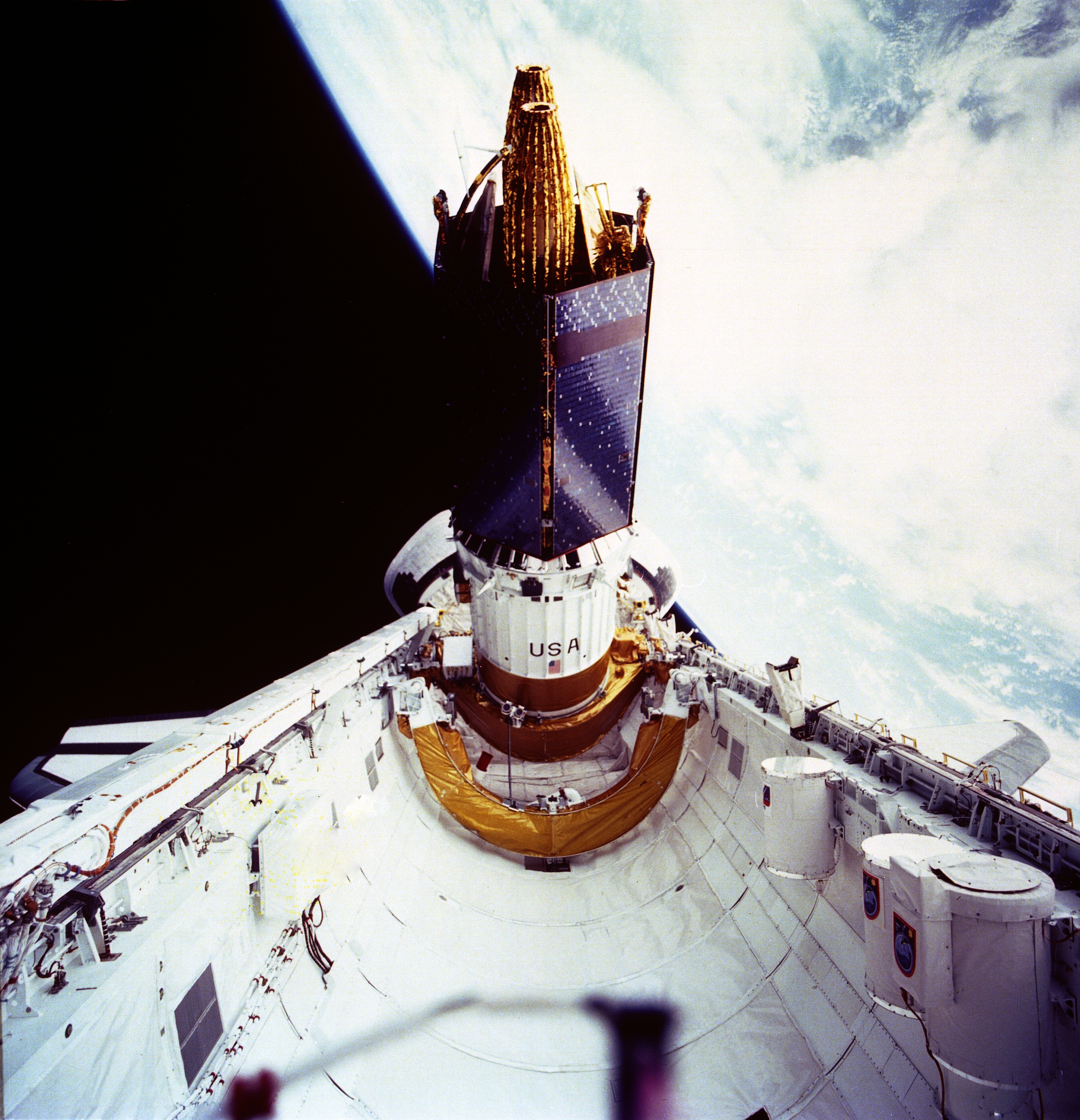 The primary payload of the STS-43 mission, Tracking and Data Relay Satellite-E (TDRS-E) attached to an Inertial Upper Stage (IUS) was photographed at the moment of its release from the cargo bay of the Space Shuttle Orbiter Atlantis. The TDRS-E was boosted by the IUS into geosynchronous orbit and positioned to remain stationary 22,400 miles above the Pacific Ocean southwest of Hawaii. The TDRS system provides almost uninterrupted communications with Earth-orbiting Shuttles and satellites, and had replaced the intermittent coverage provided by globe-encircling ground tracking stations used during the early space program. The TDRS can transmit and receive data, and track a user spacecraft in a low Earth orbit. The IUS is an unmarned transportation system designed to ferry payloads from low Earth orbit to higher orbits that are unattainable by the Shuttle. The launch of STS-43 occurred on August 2, 1991.